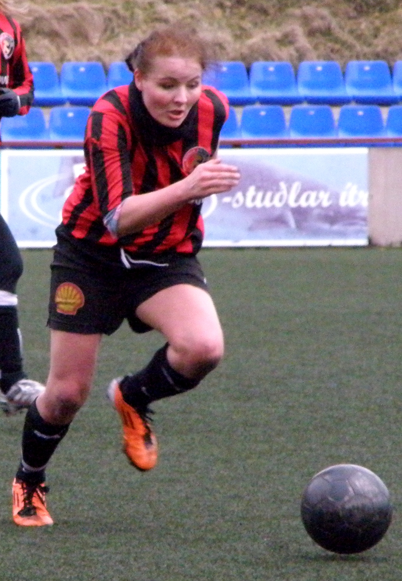 Heidi Sevdal is a Faroese female football (soccer) player, who currently (2012) plays for HB Tórshavn. She has earlier played for Víkingur Gøta, B36 Tórshavn and NSÍ Runavík. She also plays for the women's national team of the Faroe Islands. Føroyskt: Heidi Sevdal er ein føroyskur fótbóltsleikari, sum spælir í bestu kvinnudeildini, í løtuni (2012) við HB, hon hevur fyrr spælt við Víkingini, B36 og NSÍ. Hon spælir eisini við føroyska kvinnu A-landsliðnum.